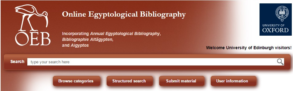 [SCM]actwin,0,0,0,0; Legacy Window Online Egyptological Bibliography (OEB): Oxford Online Bibliography - Google Chrome chrome 03/10/2016 , 11:24:17